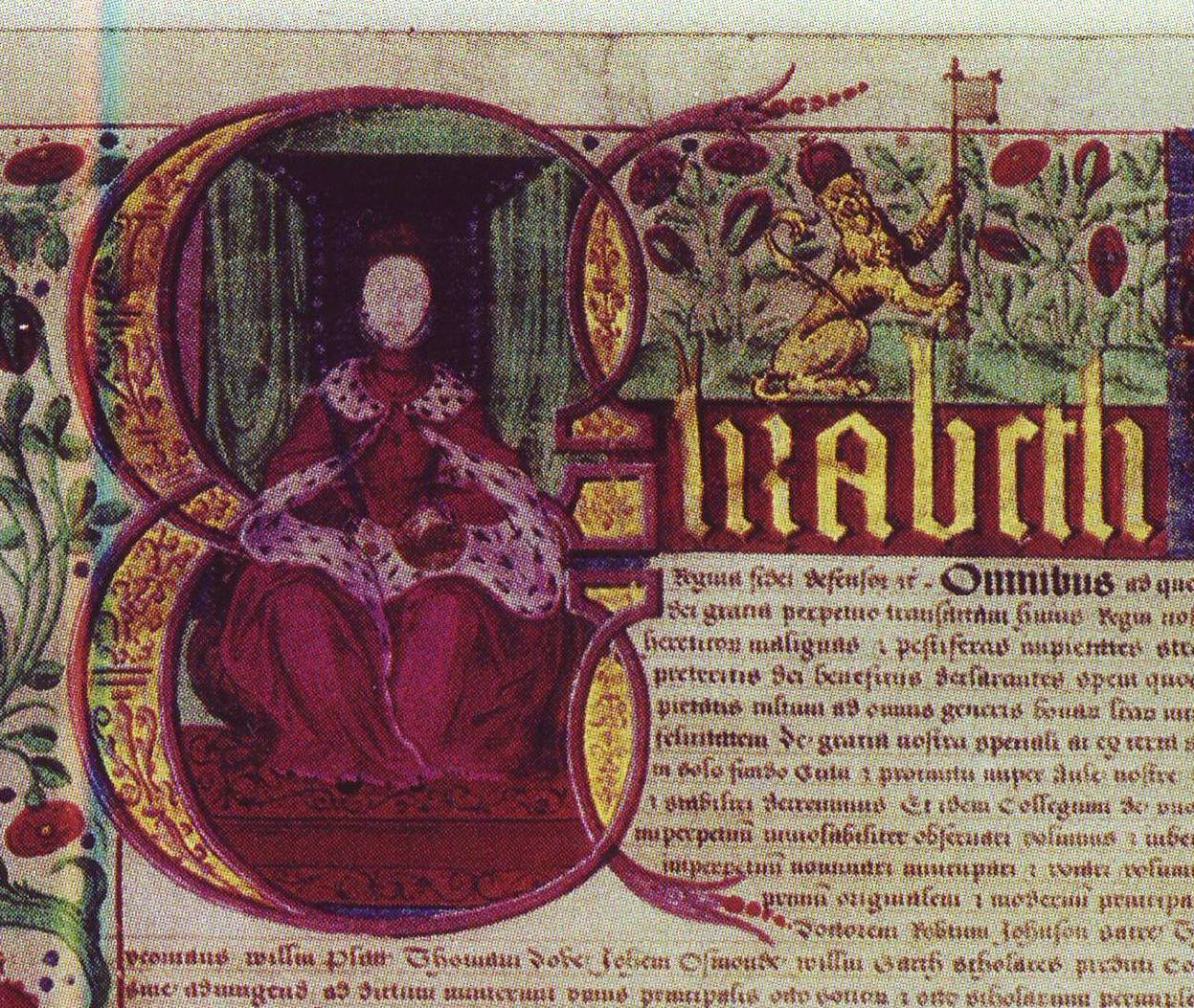 The illuminated opening letter "E", depicting Elizabeth I, from the foundation charter of Jesus College, Oxford dated 27 June 1571.